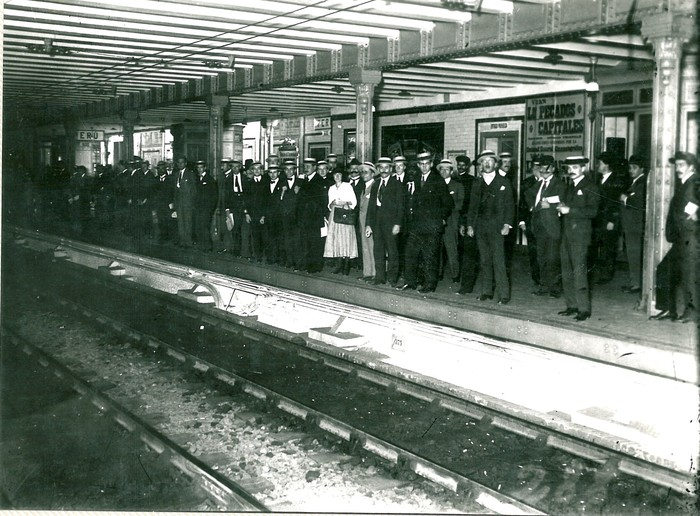 Passengers at Peru Station on Line A of the Buenos Aires Underground in the early 1900s